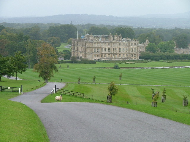 Longleat House, Wiltshire. Longleat House (the home of Lord Bath) and Safari Park are set in more than 900 acres of 'Capability' Brown landscaped parkland close to the Wilts/Somerset border with a further 8,000 acres of woodlands, lakes and farmland.